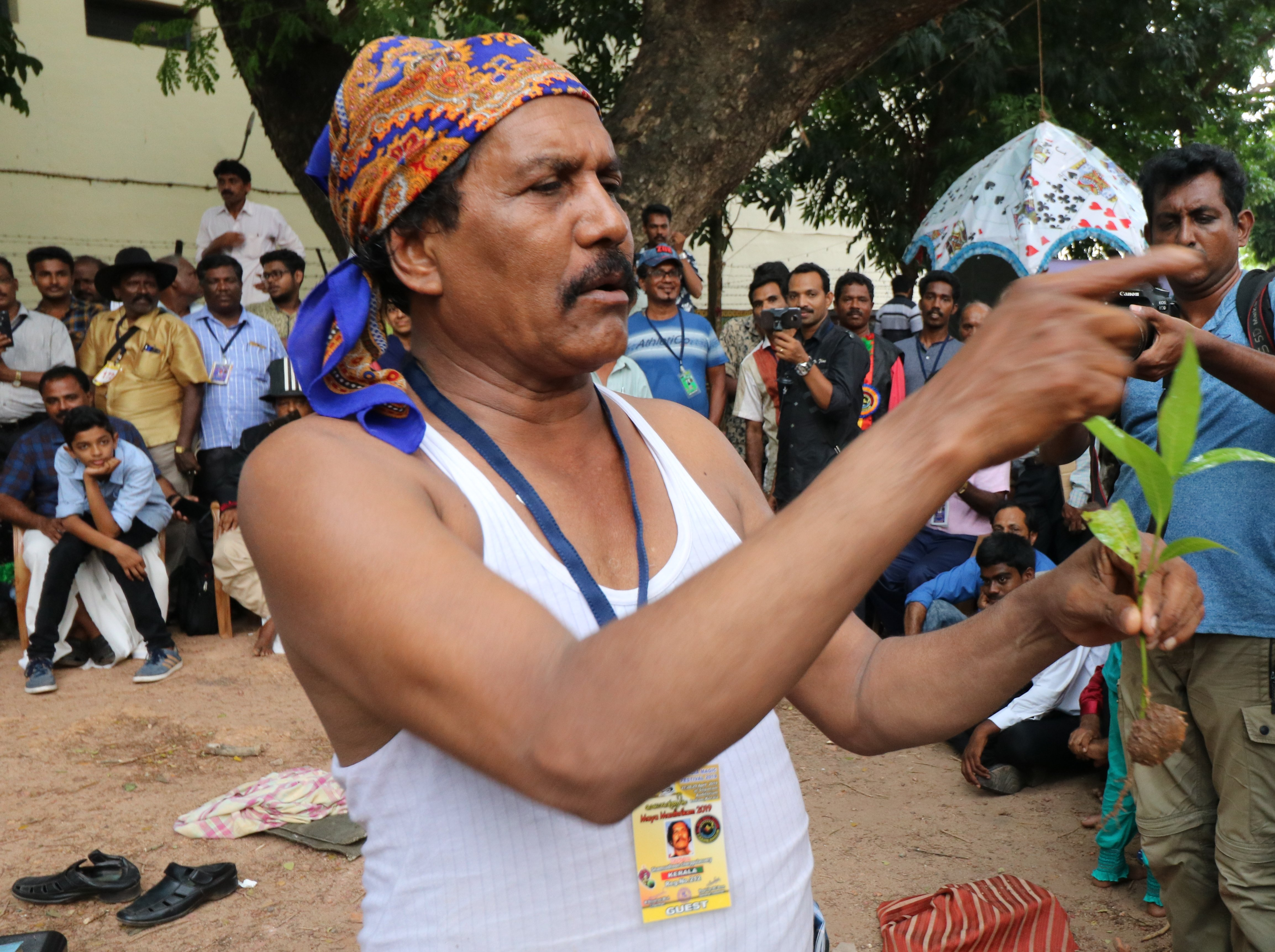 Sherefudeen cherpulasery, Kerala Magician performing Indian green mango trick at Kollam April 2019